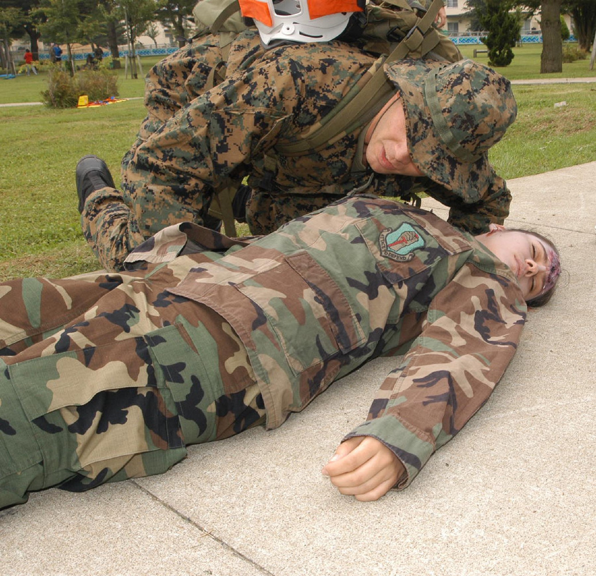 Okinawa, Japan (Oct. 3, 2003) -- Hospital Corpsman 2nd Class Bobby Ferrell applies Emergency Medical Technician (EMT) skills to a simulated unconscious patient during a mass casualty drill at the 8th annual Pacific Command Emergency Medical Technician (PACOM EMT) Rodeo. U.S. Navy photo by Amanda Woodhead. (RELEASED)